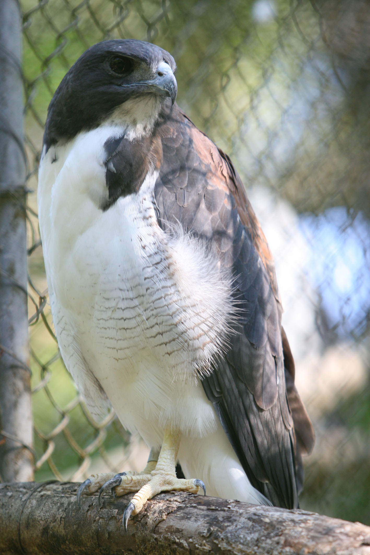 An adult White-tailed Hawk at Salvador Zoo, Ondina, Salvador, Bahia, Brazil.